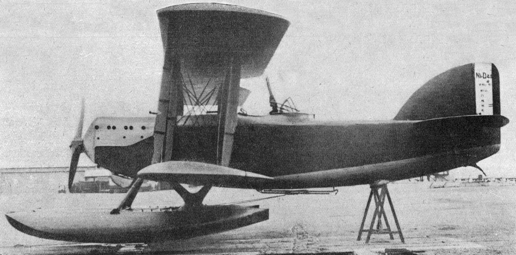 Nieuport Delage NiD 43 photo from L'Aéronautique January,1926